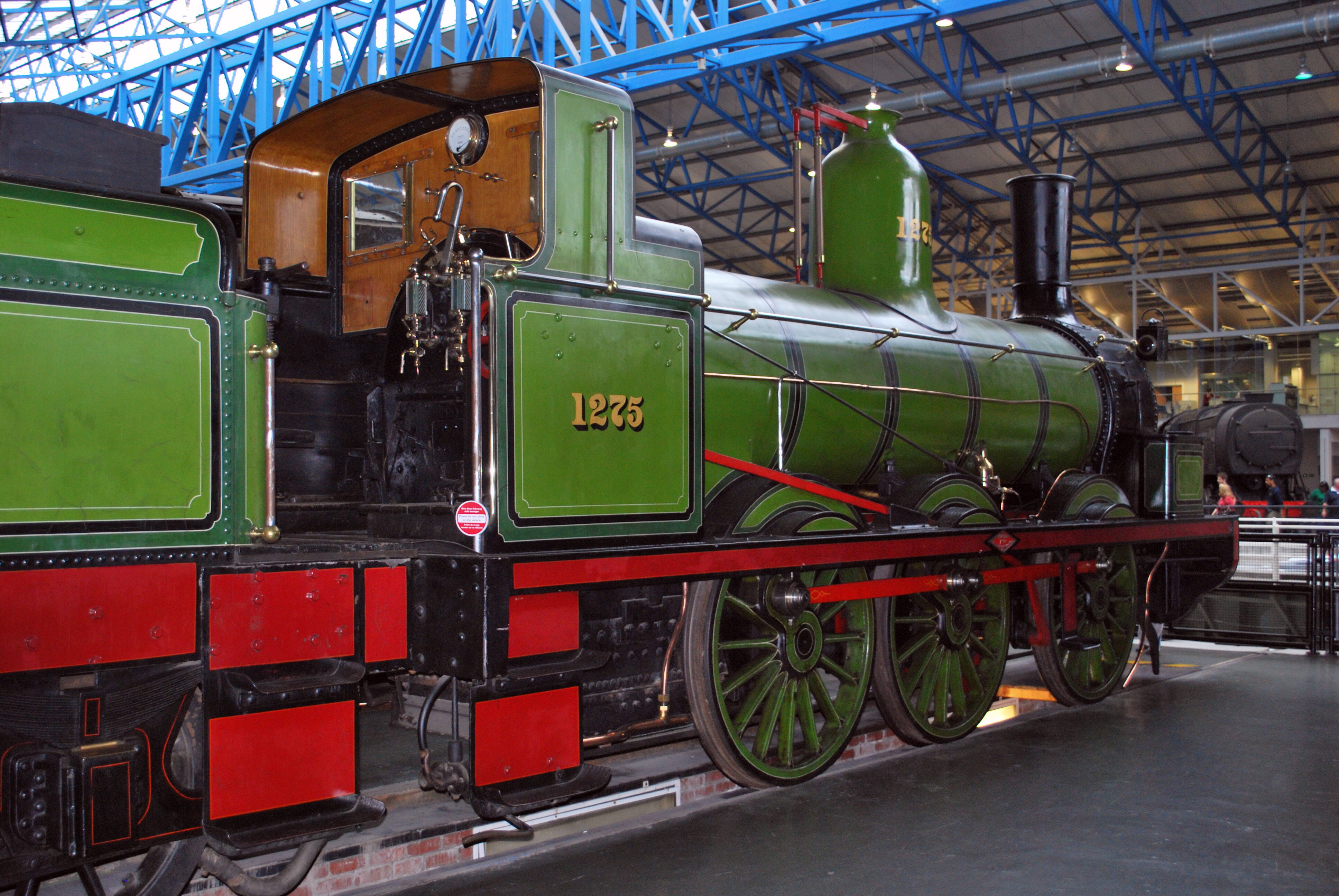 Stockton & Darlington Railway Class "1001" 0-6-0 No.1275 (and the same number was retained bith by the North Eastern Railway and LNER) at the National Railway Museum York, 09/10. No.1275 is of the "Stephenson Long Boiler "type, one of the most successful of the early mineral loco designs and they had very long lives. NO.1275 was designed by Bouch and built by Dubs at Glasgow (works No.1874) in 1874 although the "1001" Class waqs built from 1864 to 1875.